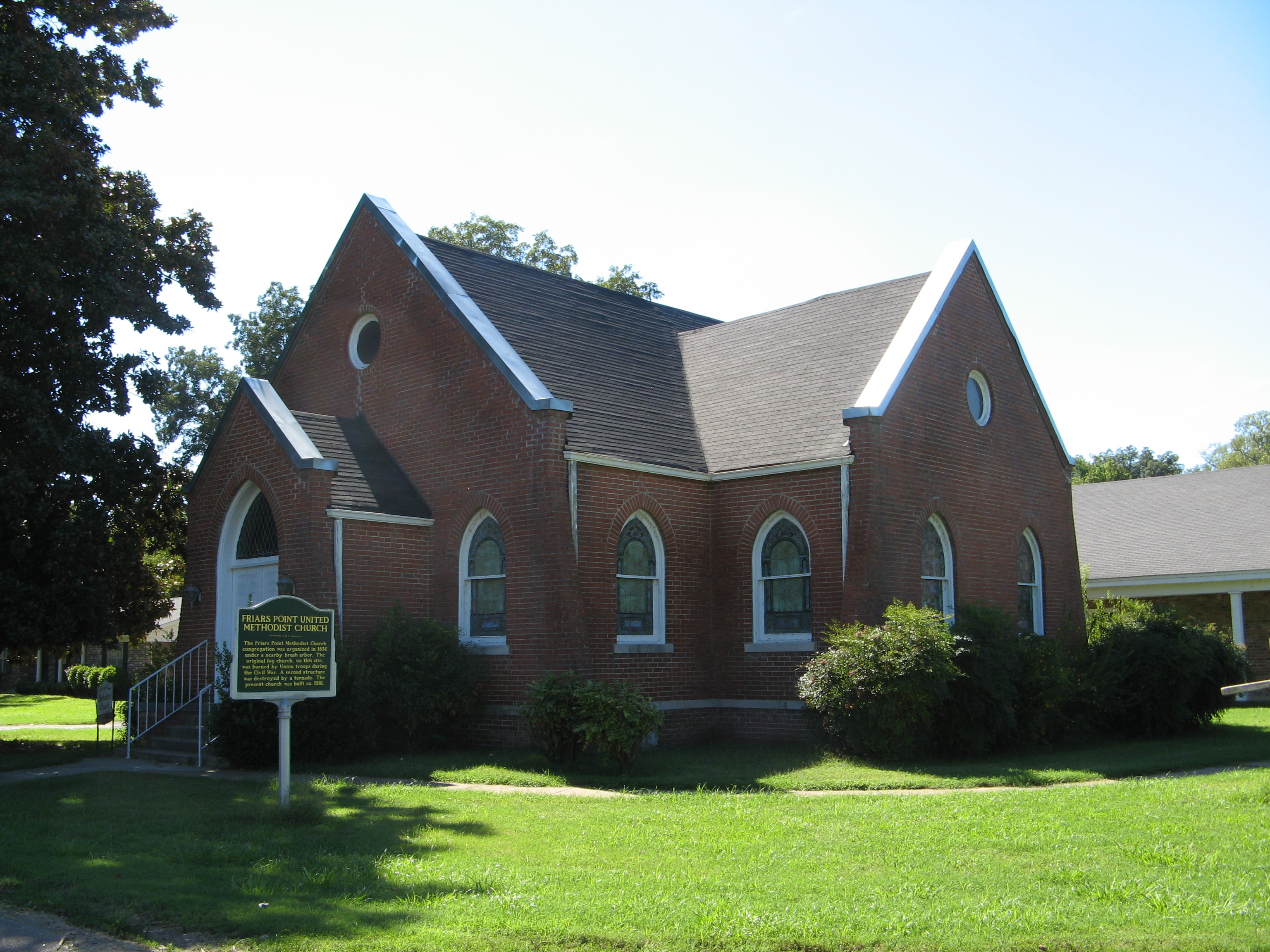 See next picture in photostream to read the historical marker.